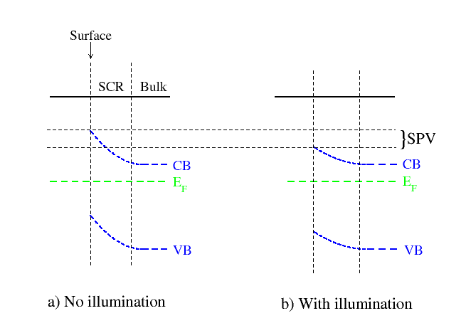 Two energy band diagrams illustrate the concept of surface photovoltage (SPV) in an n-type semiconductor. In a), surface defects cause the formation of a space-charge region (SCR) where the conduction band that is the origin of majority carriers is bent away from the Fermi level at the surface. b) Under illumination, the influx of minority carriers screens surface charges and flattens the bands. The SPV is the change in the potential at the surface due to illumination. Created by Alison Chaiken using xmgrace.